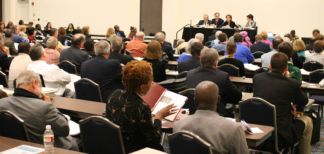 Ministry and Higher Education Legislative Committee at 2008 General Conference of the United Methodist Church (seated at head table from left to right 1) Bishop Jack Tuell -Parliamentarian , 2) Rev. Sergei Nikolaev -Vice Chair 3) Rev. Kathleen Baskin-Ball -Chair, 4) ?-Secretary